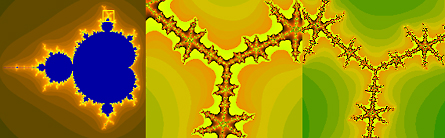 Zooming in the Mandelbrot set - Self-similarity under magnification in the neighborhood of Misiurewicz point -.1011 + .9563i